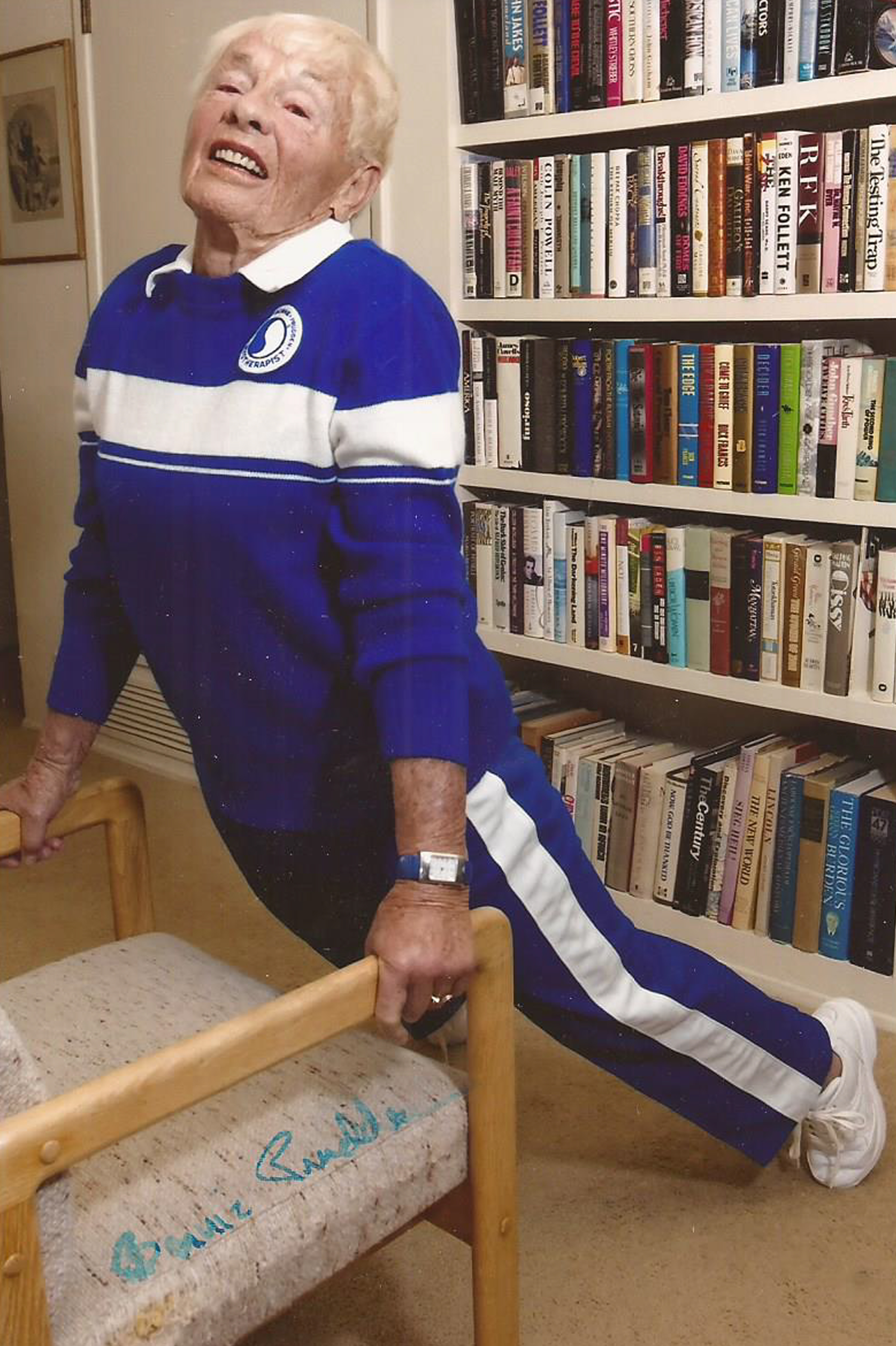 Bonnie Prudden at her home in Tucson, Arizona, United States.